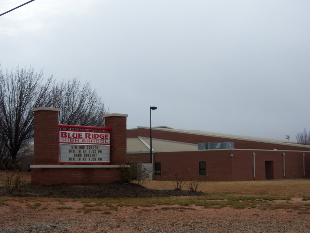 It is the front of Blue Ridge High School in Greer, South Carolina